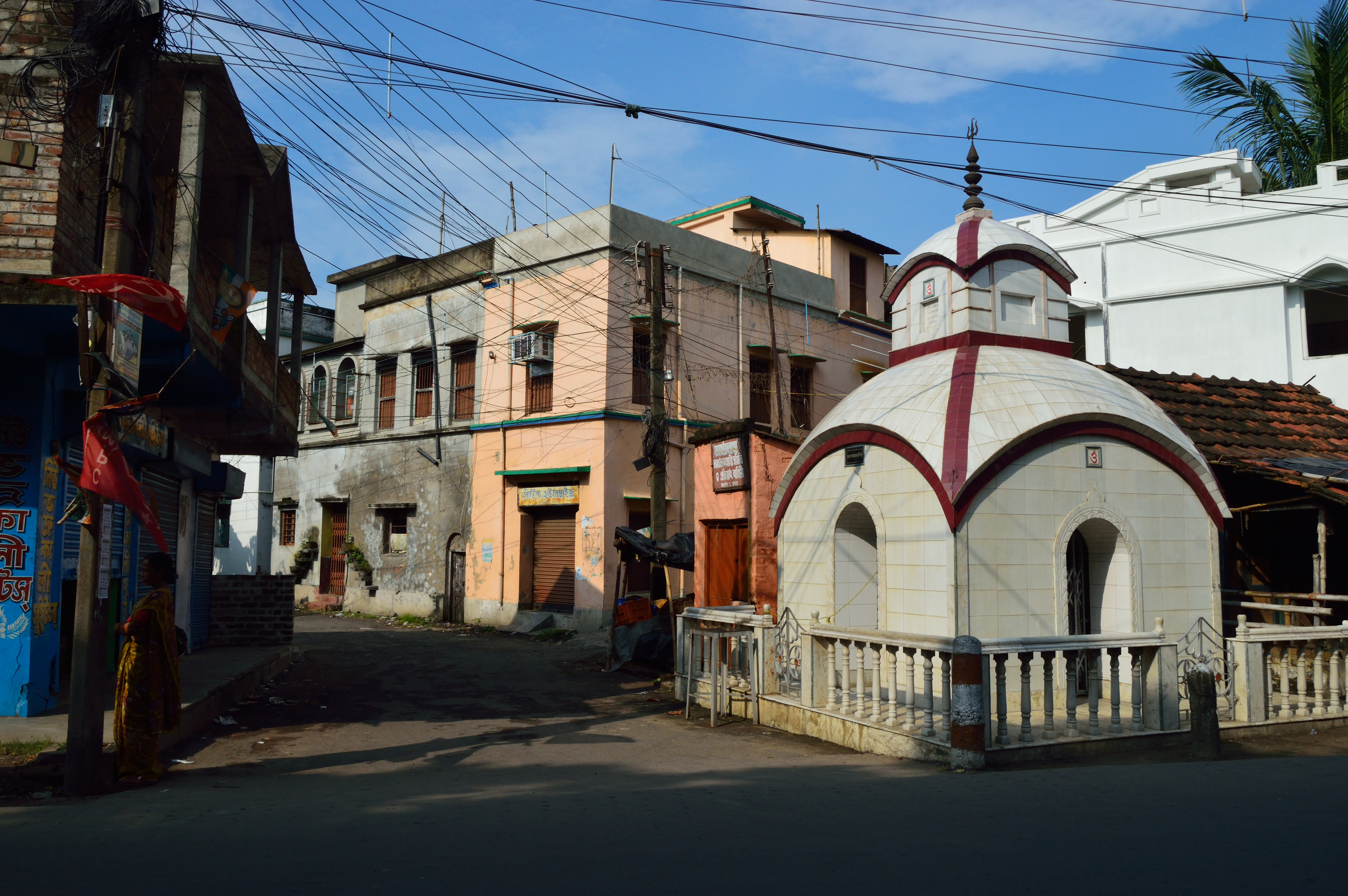 Photographed at Chamrail, Howrah.